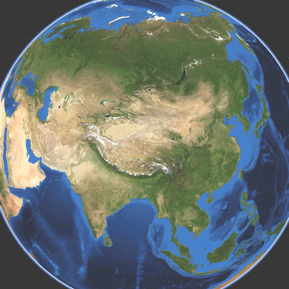 Satellite map of Asia. Land terrain and bathymetry (ocean-floor topography).